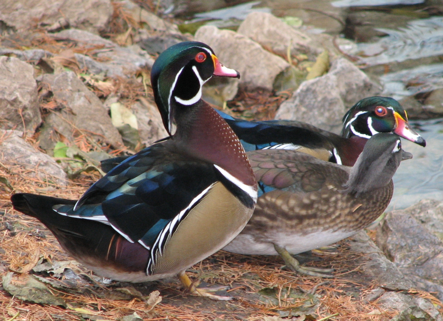 Wood Ducks